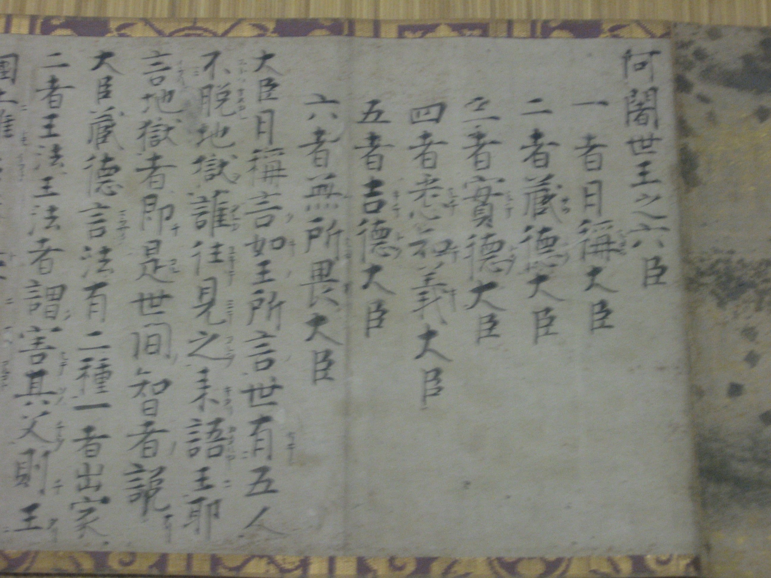 Kamakura Nagoe-Byakue-sha no Jikai: a text in Dogen's own hand. This is a poor photograph of a thirteenth-century text, but it is non-replaceable as it was taken in Hōkyōji's treasure house which is normally off limits to visitors.